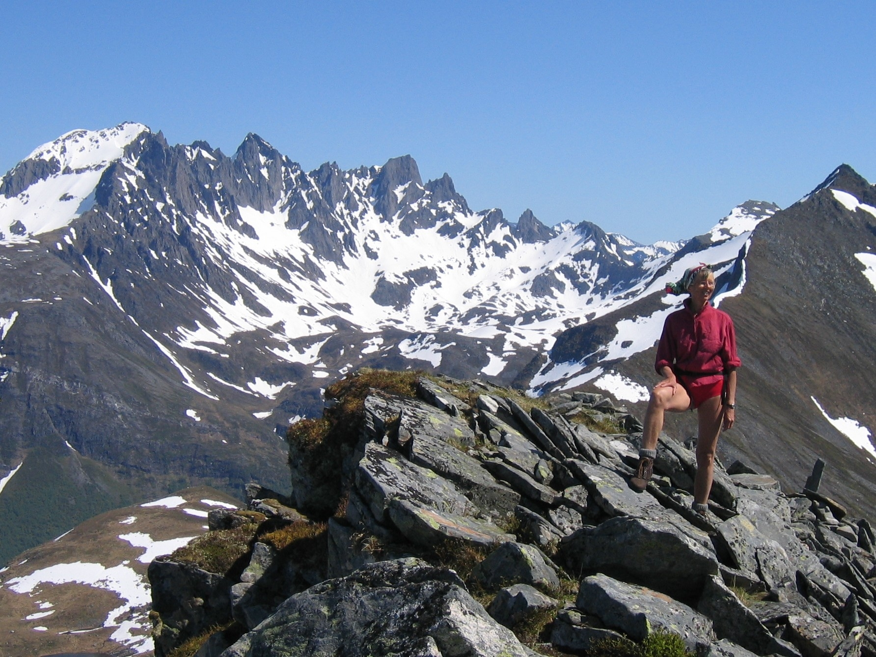 The mountains i Molladalen